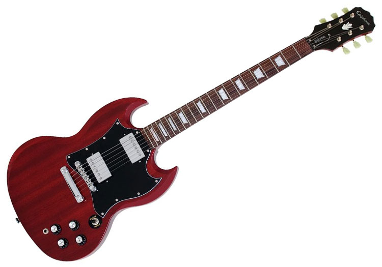 Epiphone G400 - 1966 Reissue version